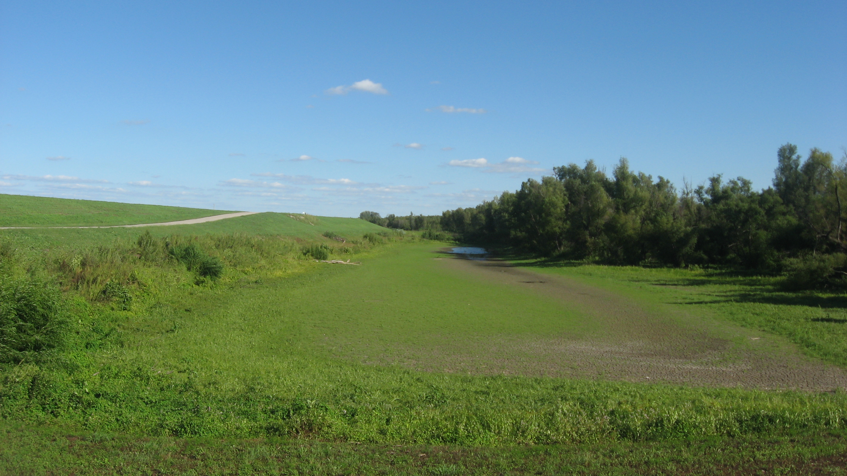 Looking eastward (downstream) along the old riverbed at the northern end of the causeway between Kaskaskia, Illinois and St. Mary, Missouri in the United States. Until a catastrophic shift in 1881, this swampy area was located at the bottom of the Mississippi River.